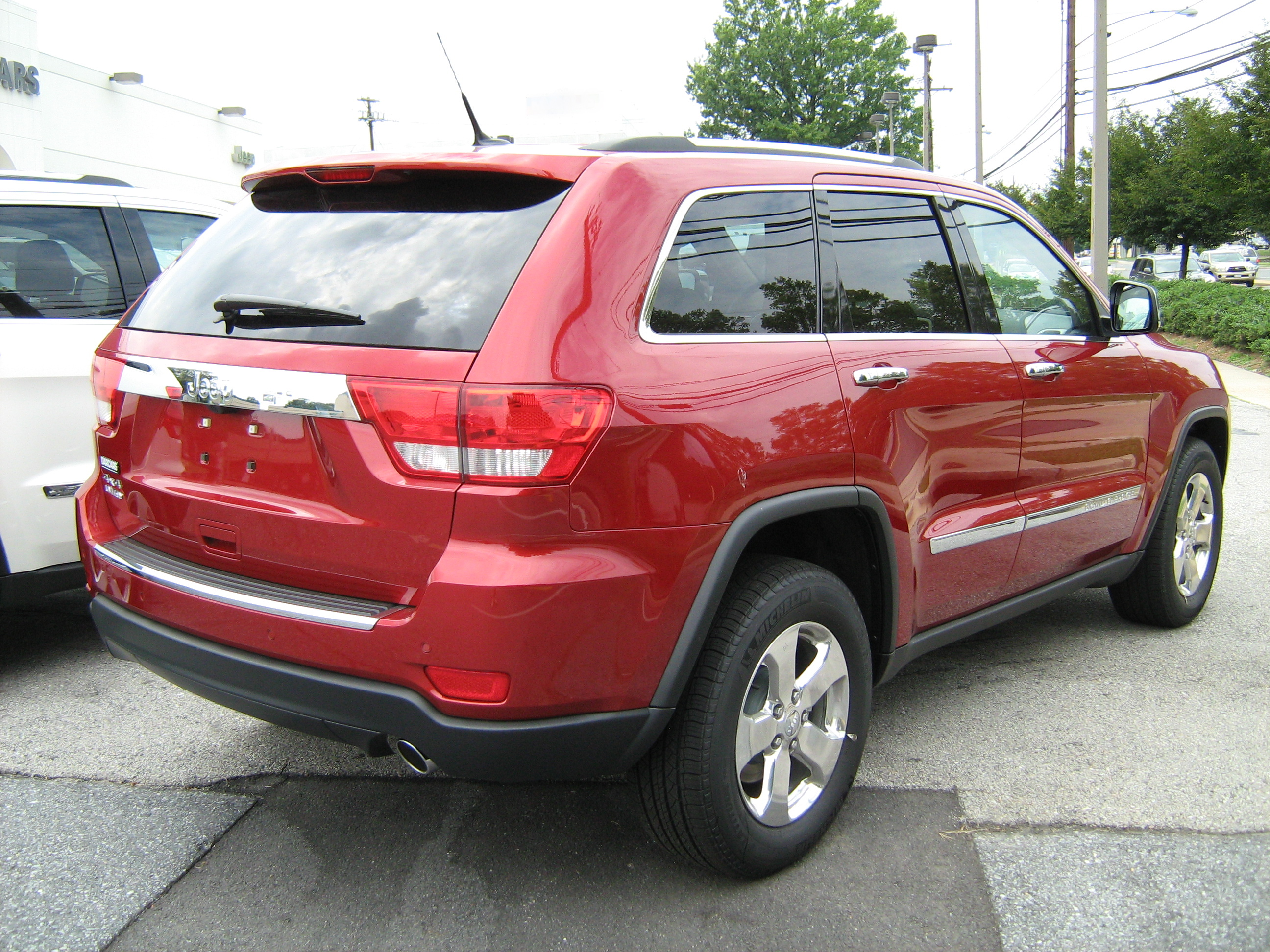 2011 Jeep Grand Cherokee Limited model finished in Inferno Red Crystal Pearlcoat. View of the rear. Picture taken in Rockville, Maryland, USA.